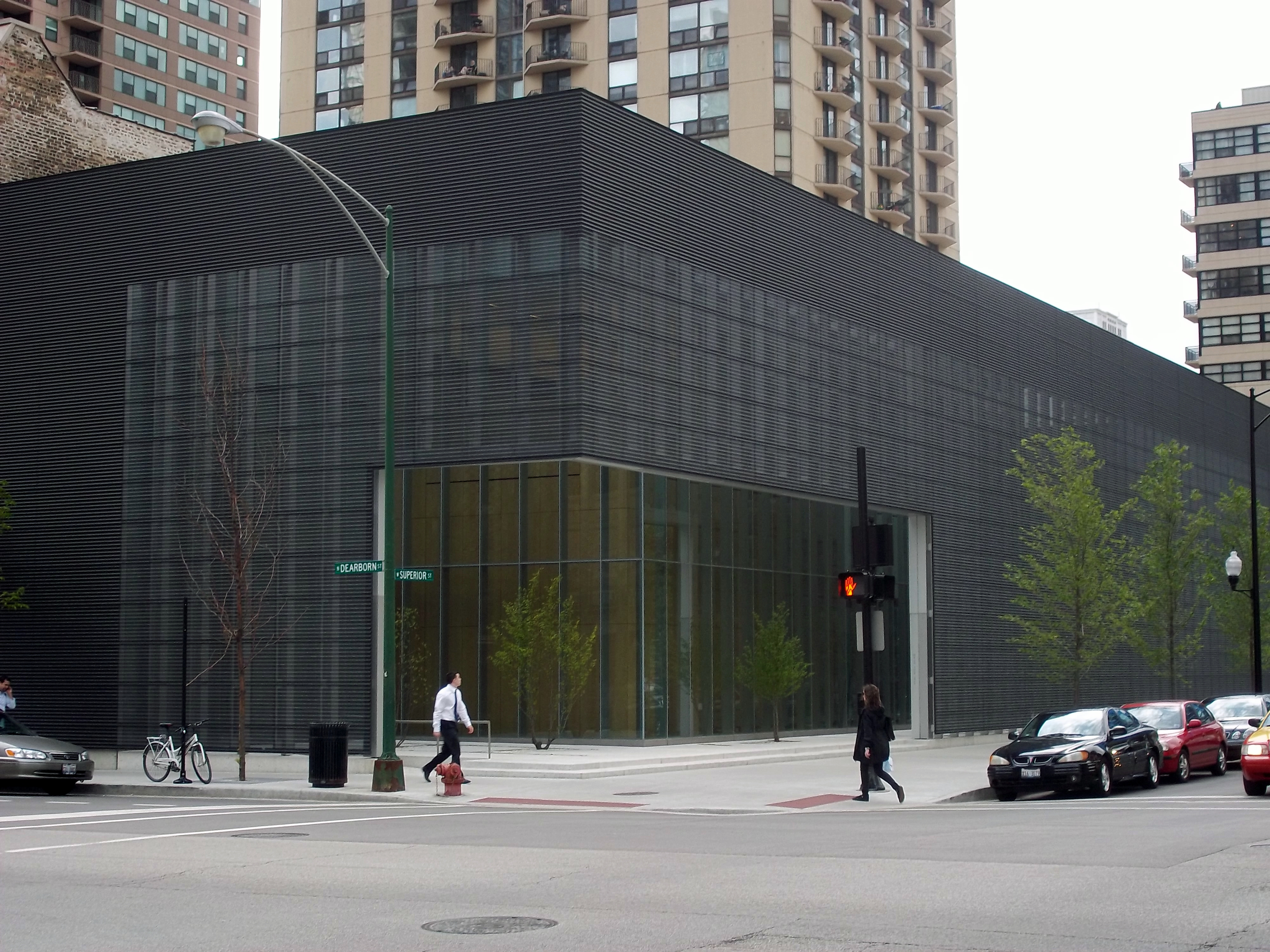 Poetry Foundation's Poetry Center in Chicago